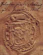 Polyxena Popel of Lobkowitz, born as Polyxena of Pernstein, seal y. 1625